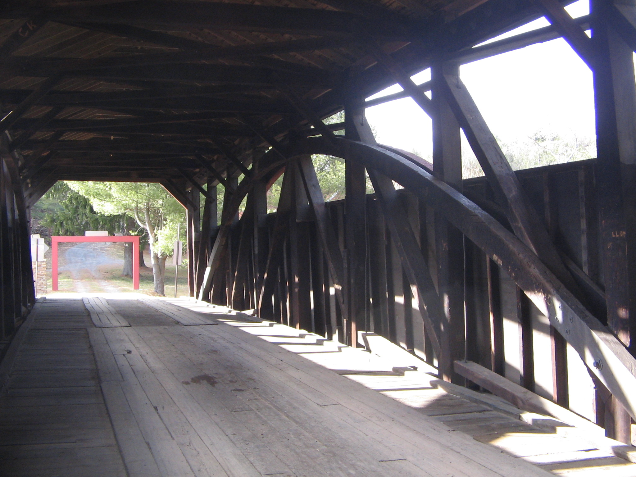 Larrys Creek Covered Bridge (also known as Cogan House Covered Bridge and Buckhorn Covered Bridge) over Larrys Creek in Cogan House Township, Pennsylvania, USA. Bridge built 1877, rehabilitated 1998. On the US National Register of Historic Places. A Burr arch truss bridge.